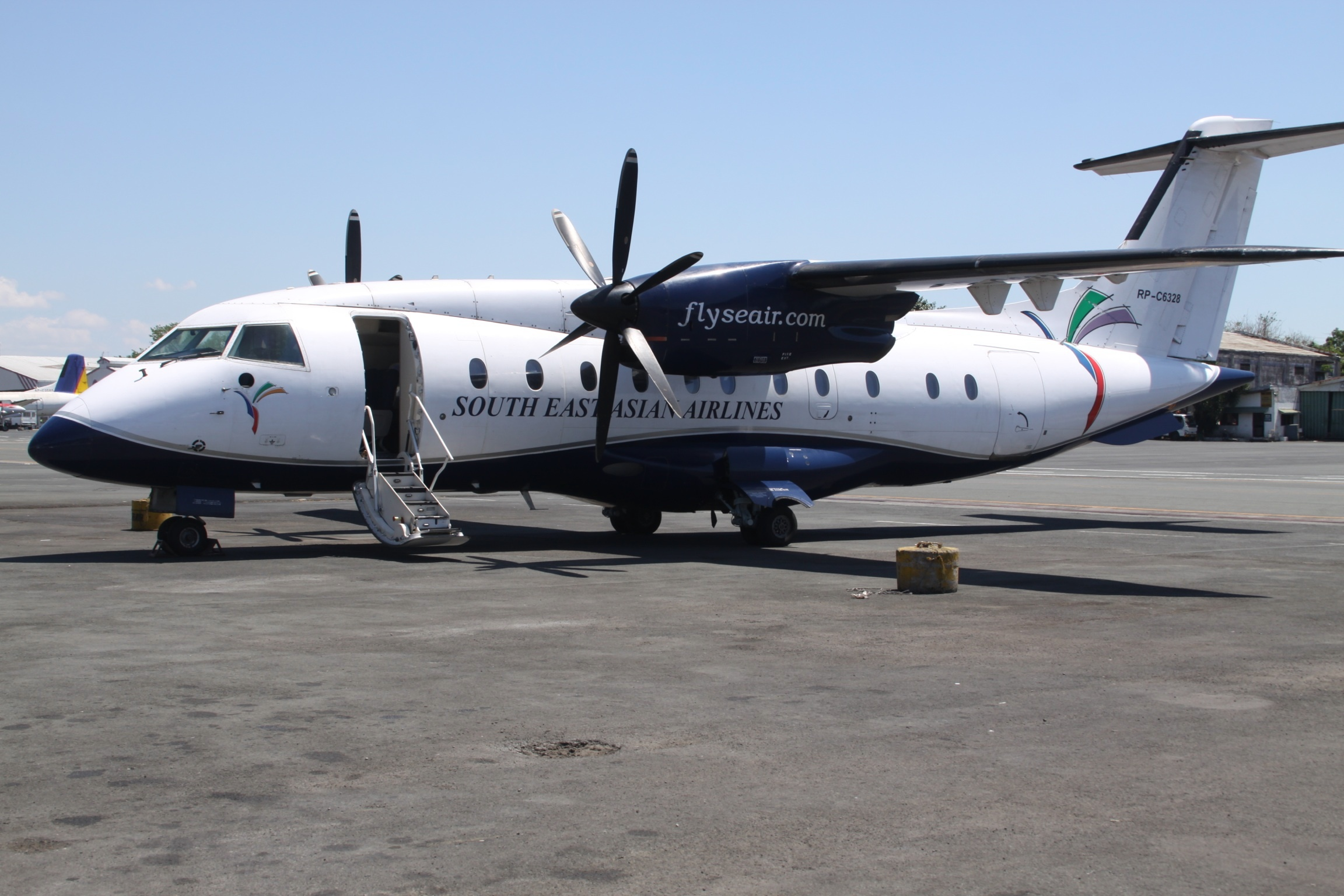 At Manila Ninoy Aquino International